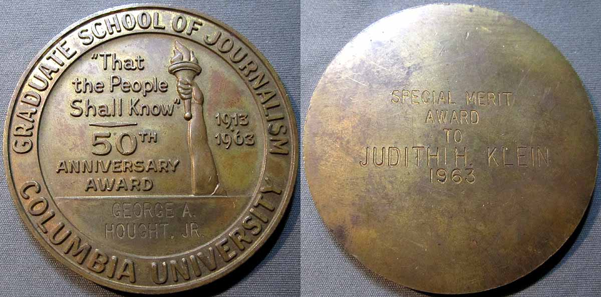 Judiths Alumni Award by the Journalism School Alumni Association